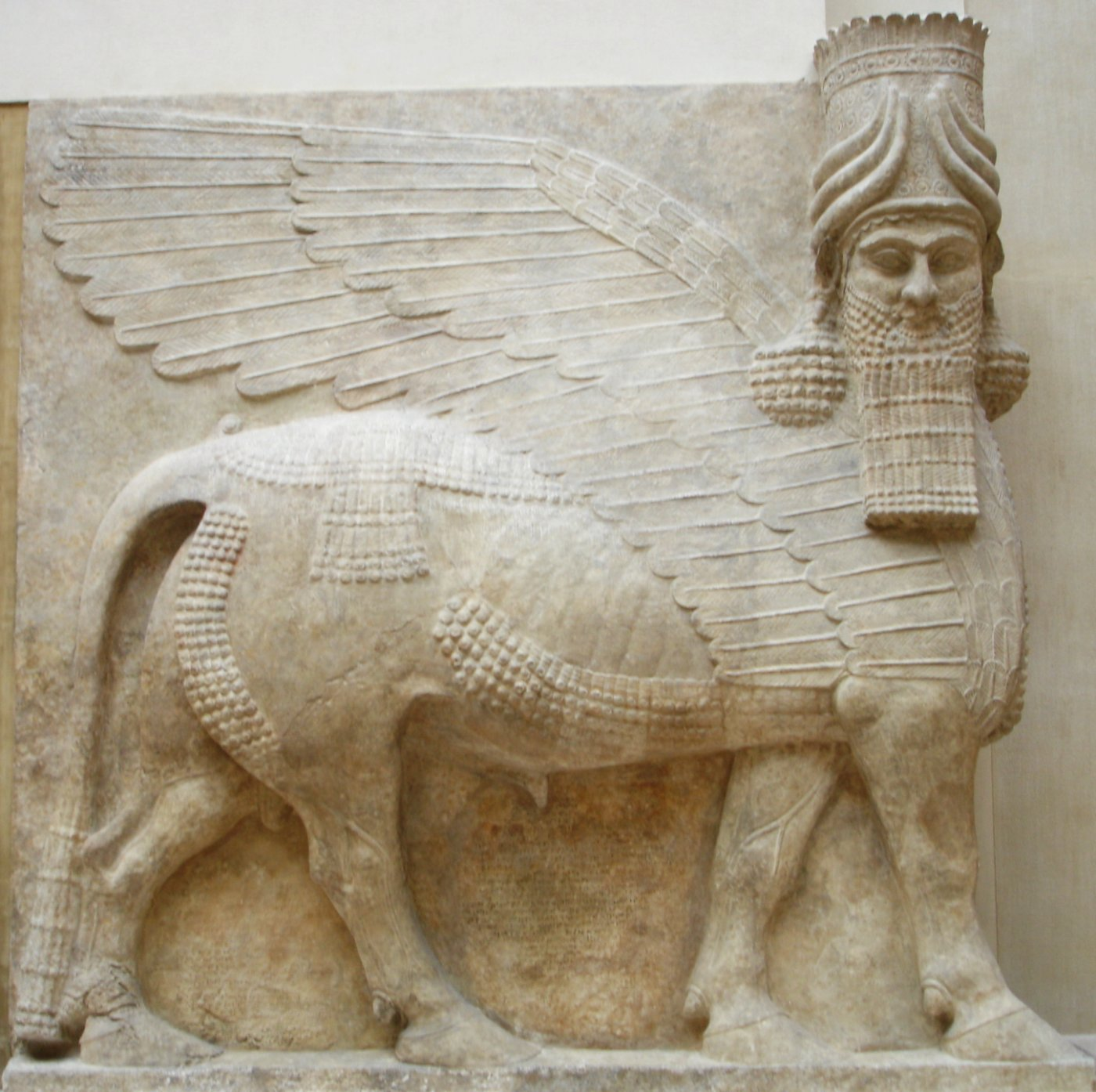 Human-headed winged bull or Lamassu facing. Bas-relief from the m wall, k door, of king Sargon II's palace at Dur Sharrukin in Assyria (now Khorsabad in Iraq).